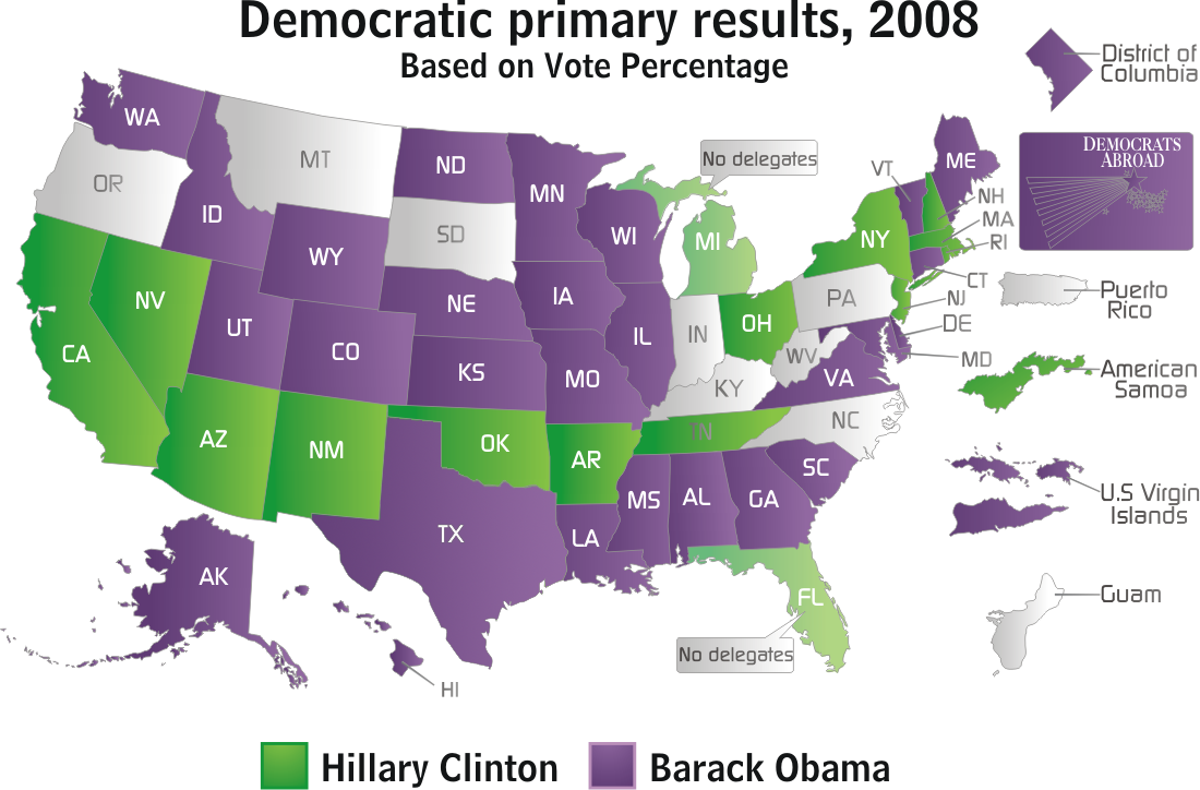 Results of the Democratic Presidential Primaries 2008, state level